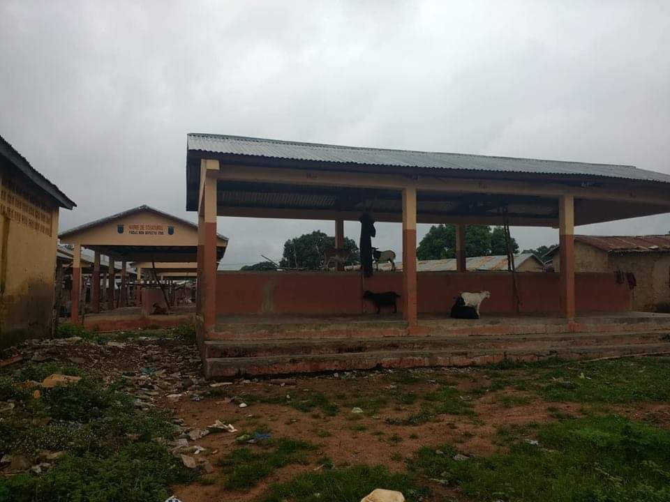 This is the market in Sanson Benin